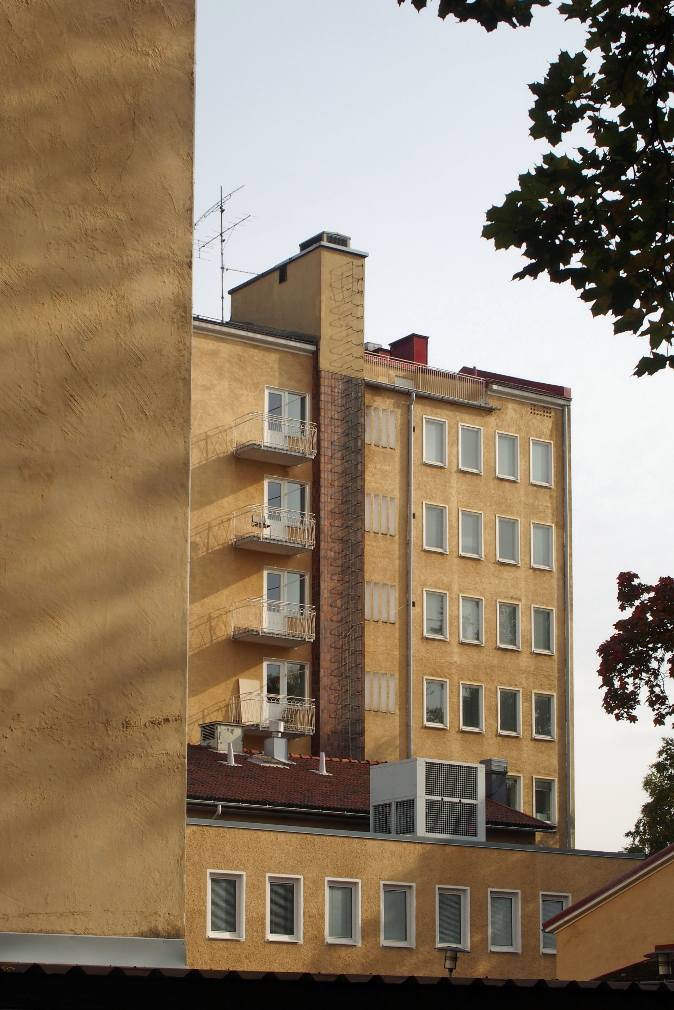 Åboland sjukhus hospital from west